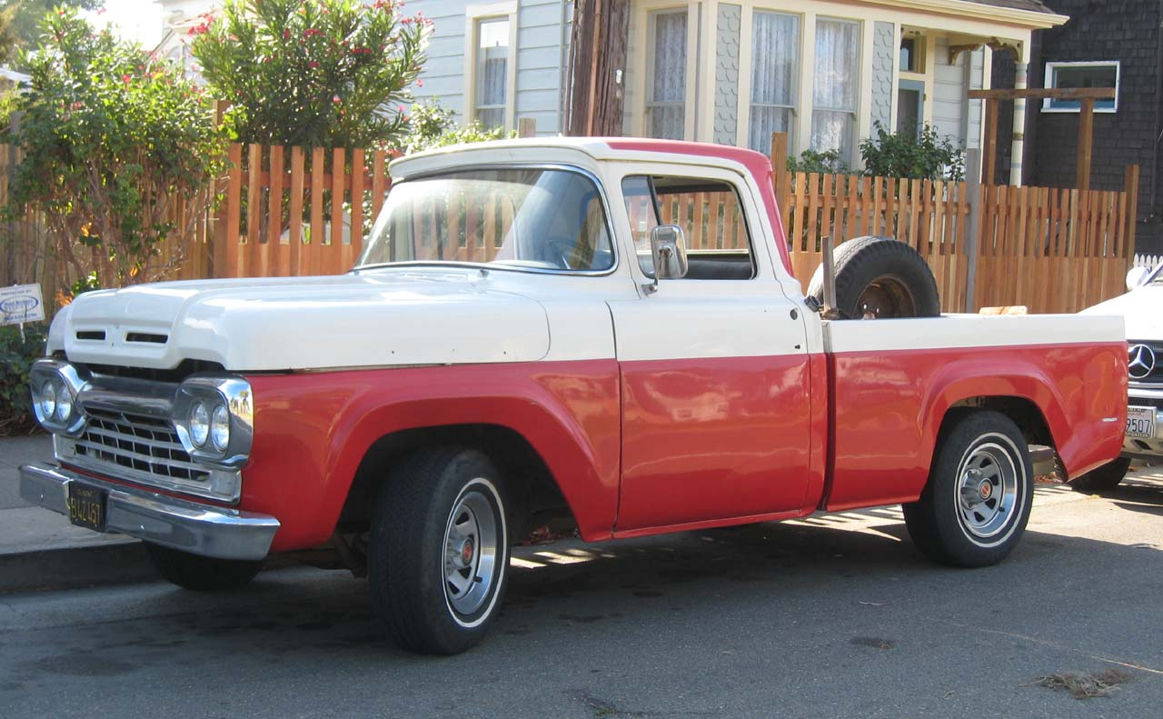 1960 Ford F-100